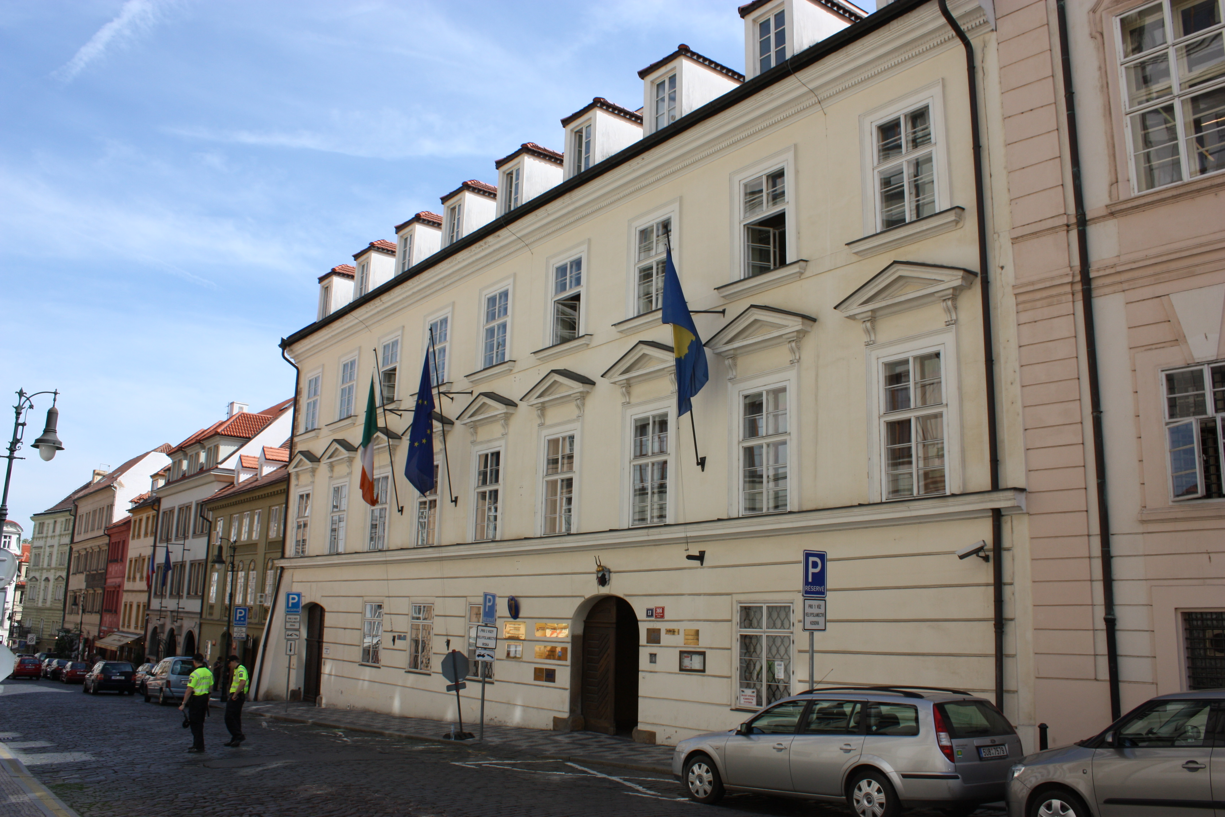 Tržiště 366/13, Prague - Malá Strana, Seat of Embassies of Ireland and Kosovo.